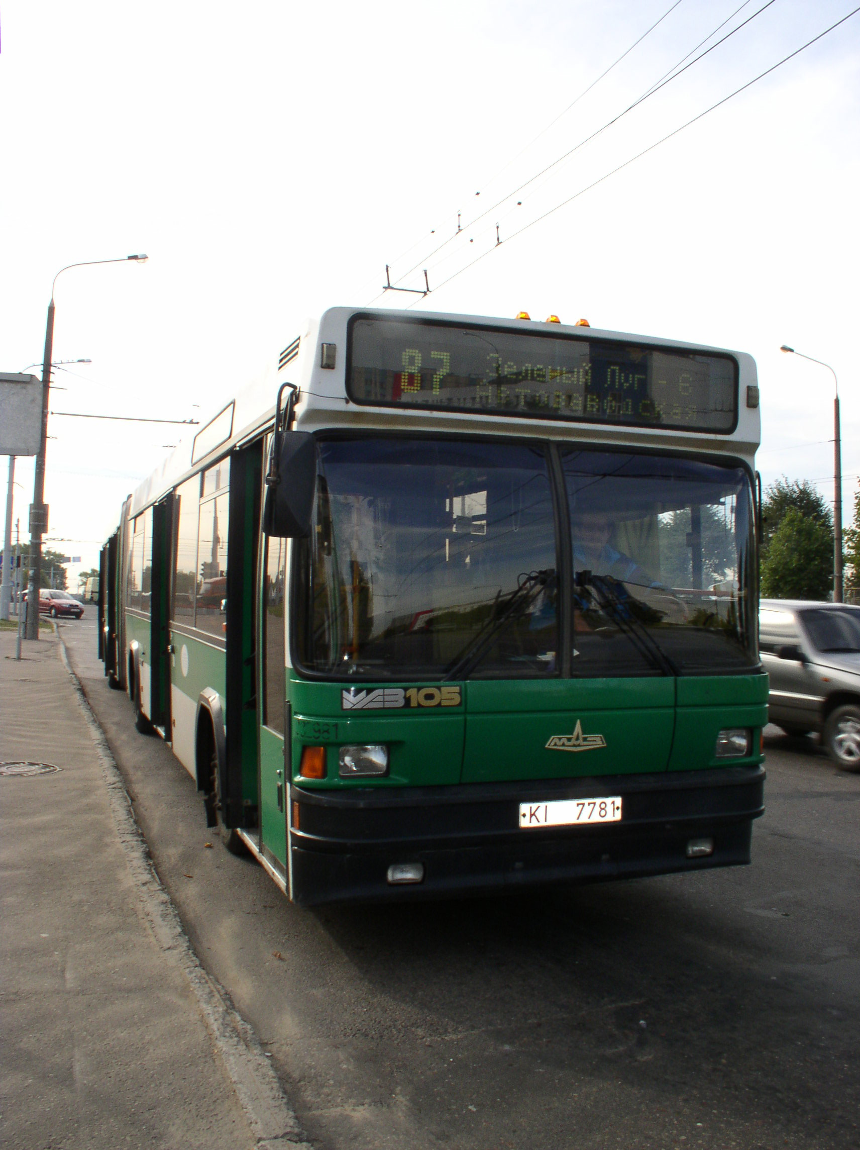 Bus "MAZ 105". Minsk, Belarus.